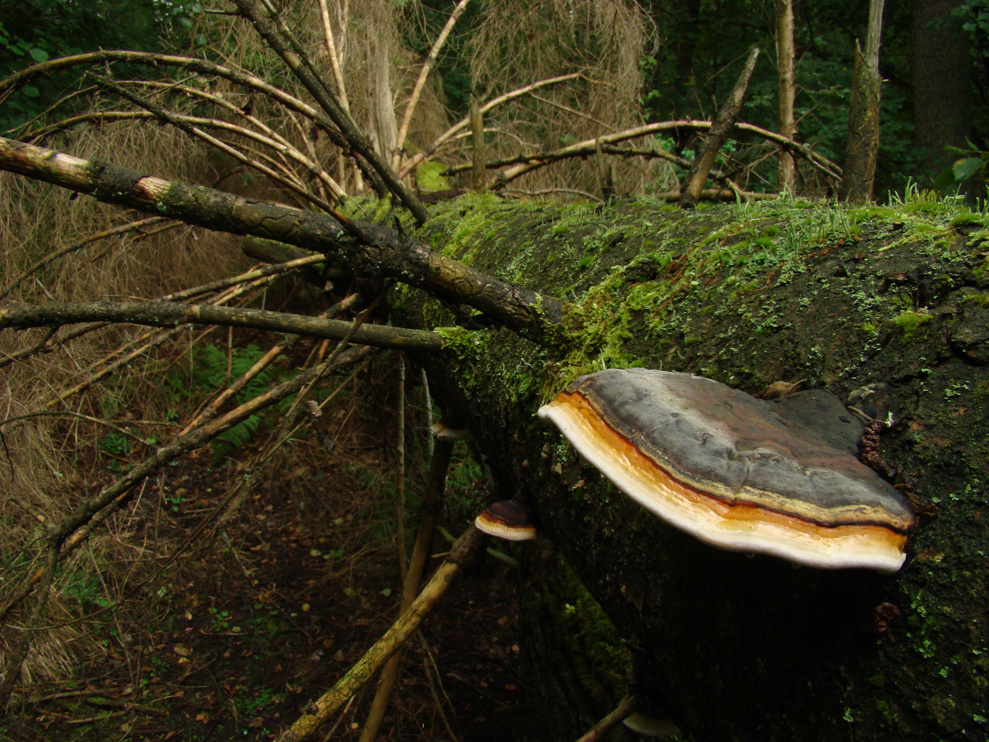 Red Banded Polypore (Fomitopsis pinicola).